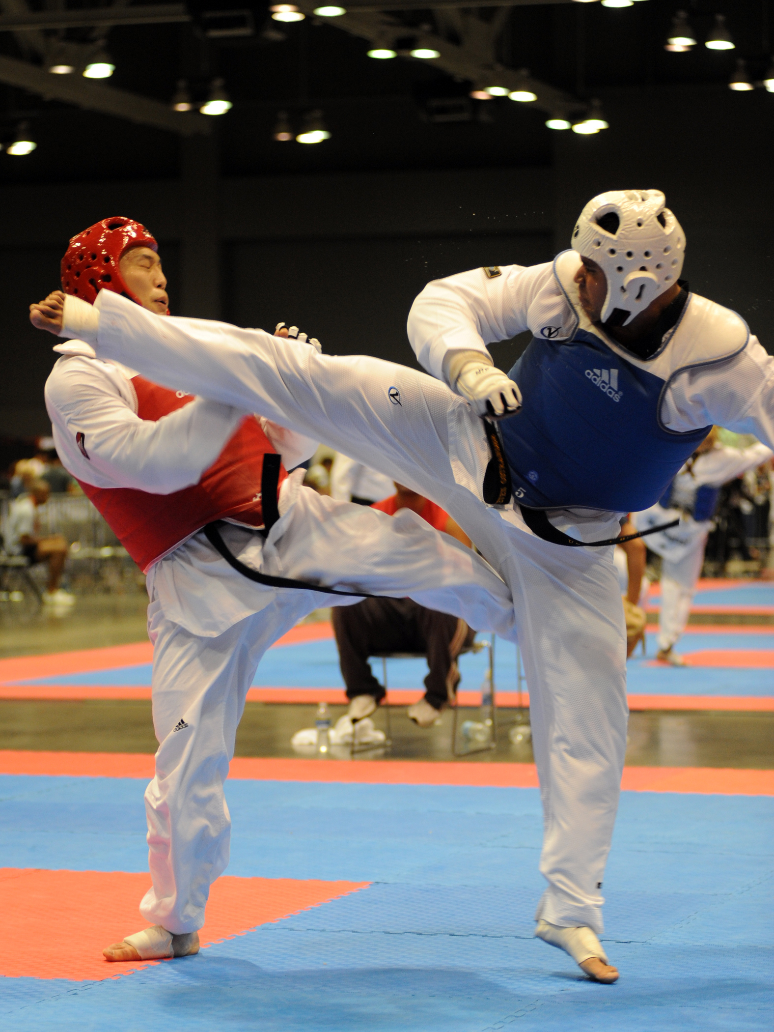 U.S. Army World Class Athlete Program martial artist 2nd Lt. Steven Ostrander kicks New Jersey's Jonathan Lee in the face during his 12-1 semifinal victory en route to his third career crown in the heavyweight division of the U.S. National Taekwondo Championships July 5 at the Austin Convention Center in Texas. Photo by Tim Hipps, FMWRC Public Affairs See more at Soldiers strike gold, two silvers at Taekwondo Championships